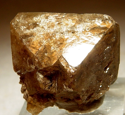 Mellite Locality: Csordakúti Mine, Bicske-Csordakút, Bicske-Zsámbéki Basin, Fejér County, Hungary (Locality at ) Very uncommon on the market, this is a very large and fine crystal of the unique,organic-based mineral mellite, most of which come from Hungary . This one has textbook form and fine luster. There is contact on one tip and on the back, but a really good display face. You just do not see these for sale often! 3.2 x 2.8 x 2.3 cm